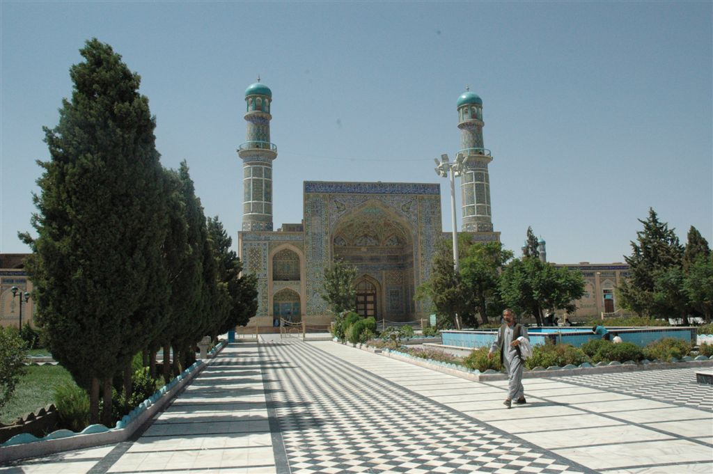 Friday Mosque (Jumah Mosque) in Herat, Afghanistan